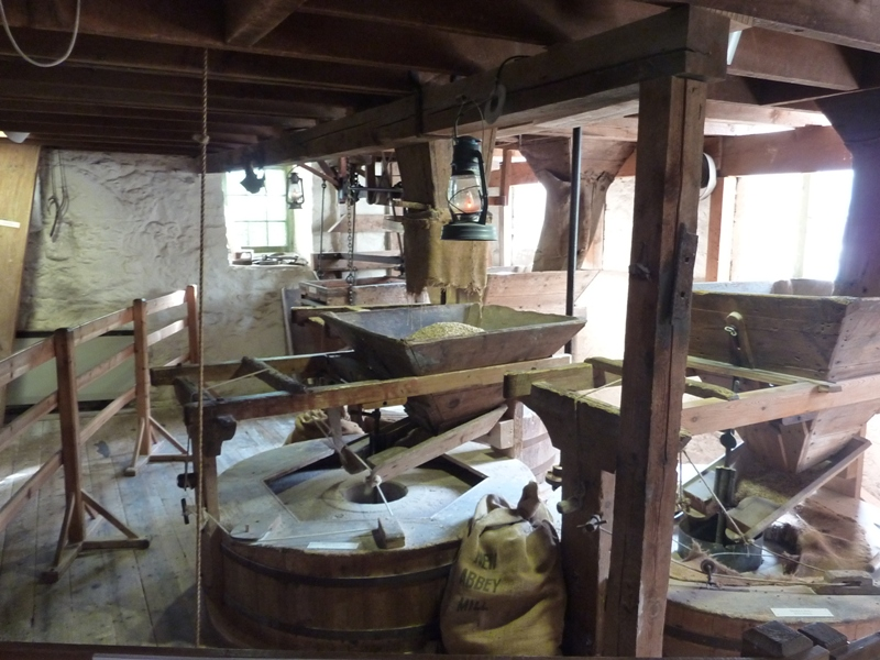 New Abbey Corn Mill, New Abbey, Dumfries and Galloway, Scotland. Interior: mill stones.